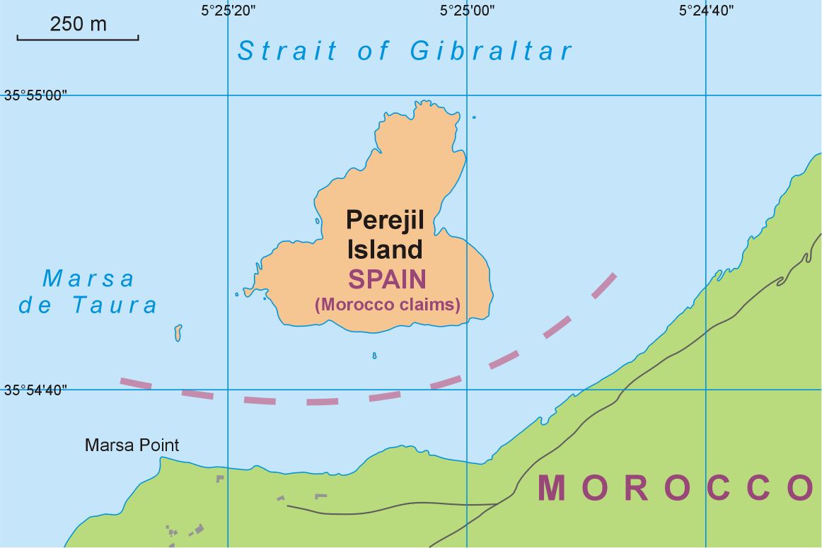 Map of Perejil Island with areas (in light orange) under Spanish administration claimed by Morocco